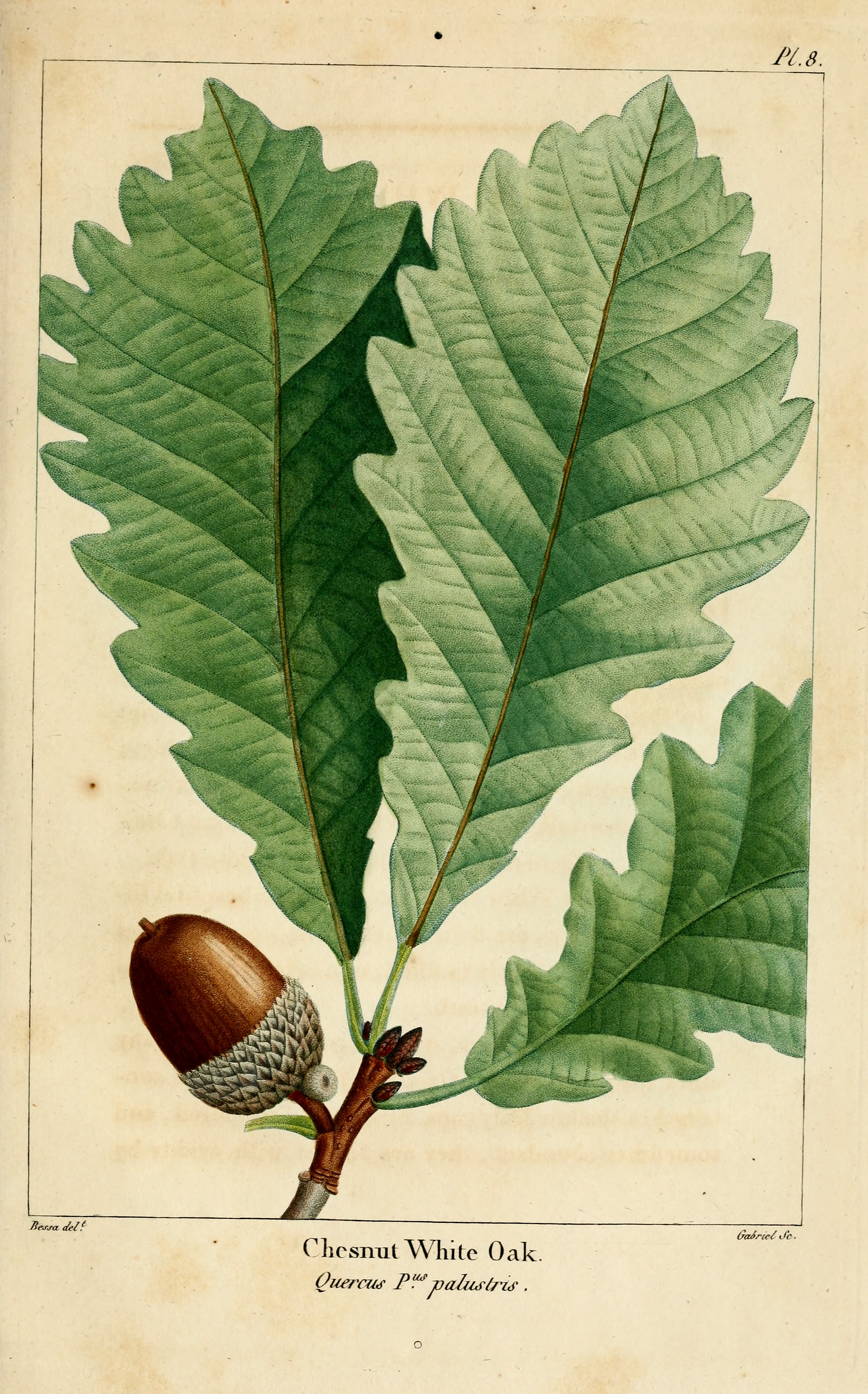 Quercus montana - Captioned: Chestnut White Oak. Quercus Pus. palustris [Q. prinus var. palustris]